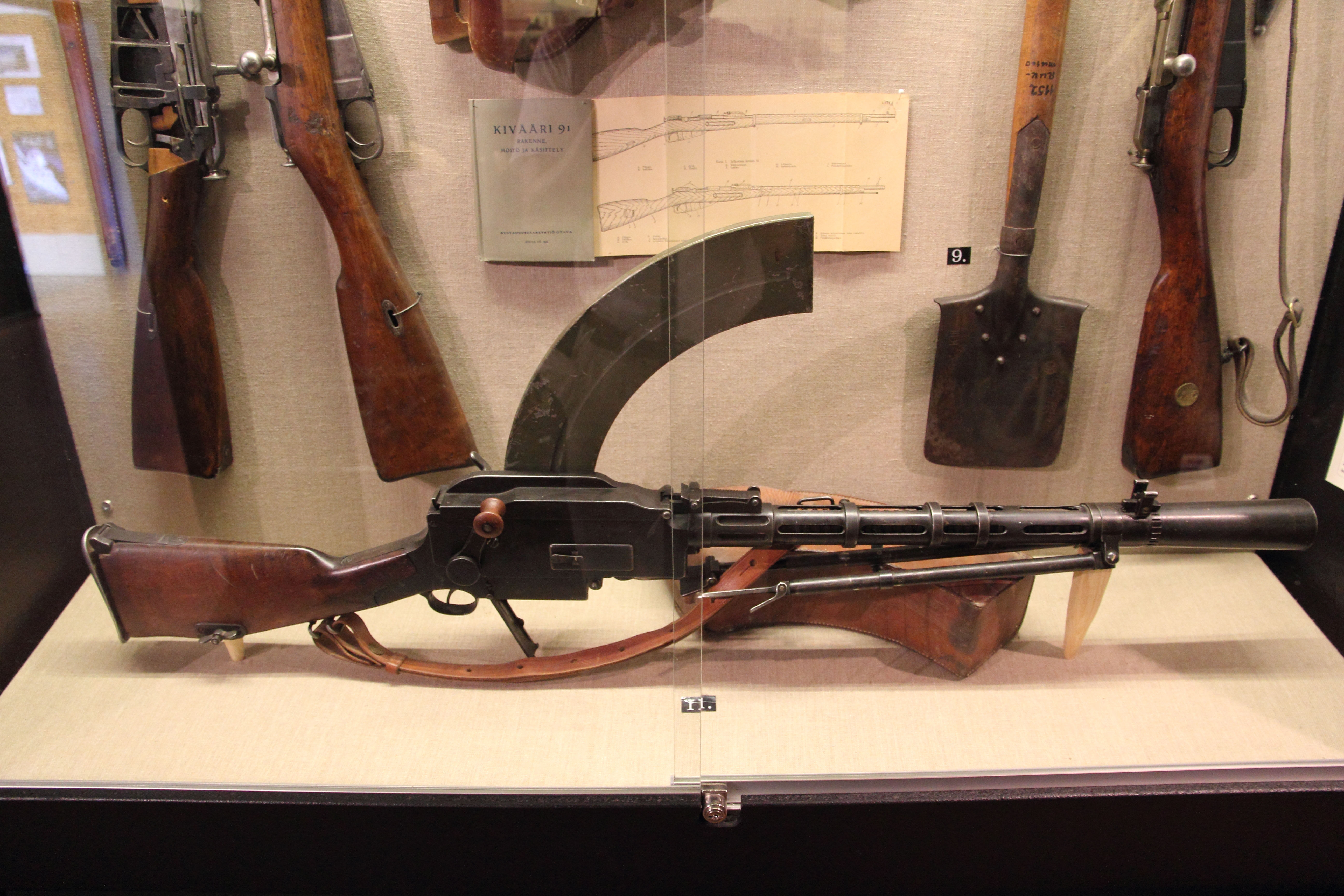 Military equipment used by Finland before World War 2: Madsen light machine gun in 7.62x54R caliber. Photographed in RUK-museum in Hamina.